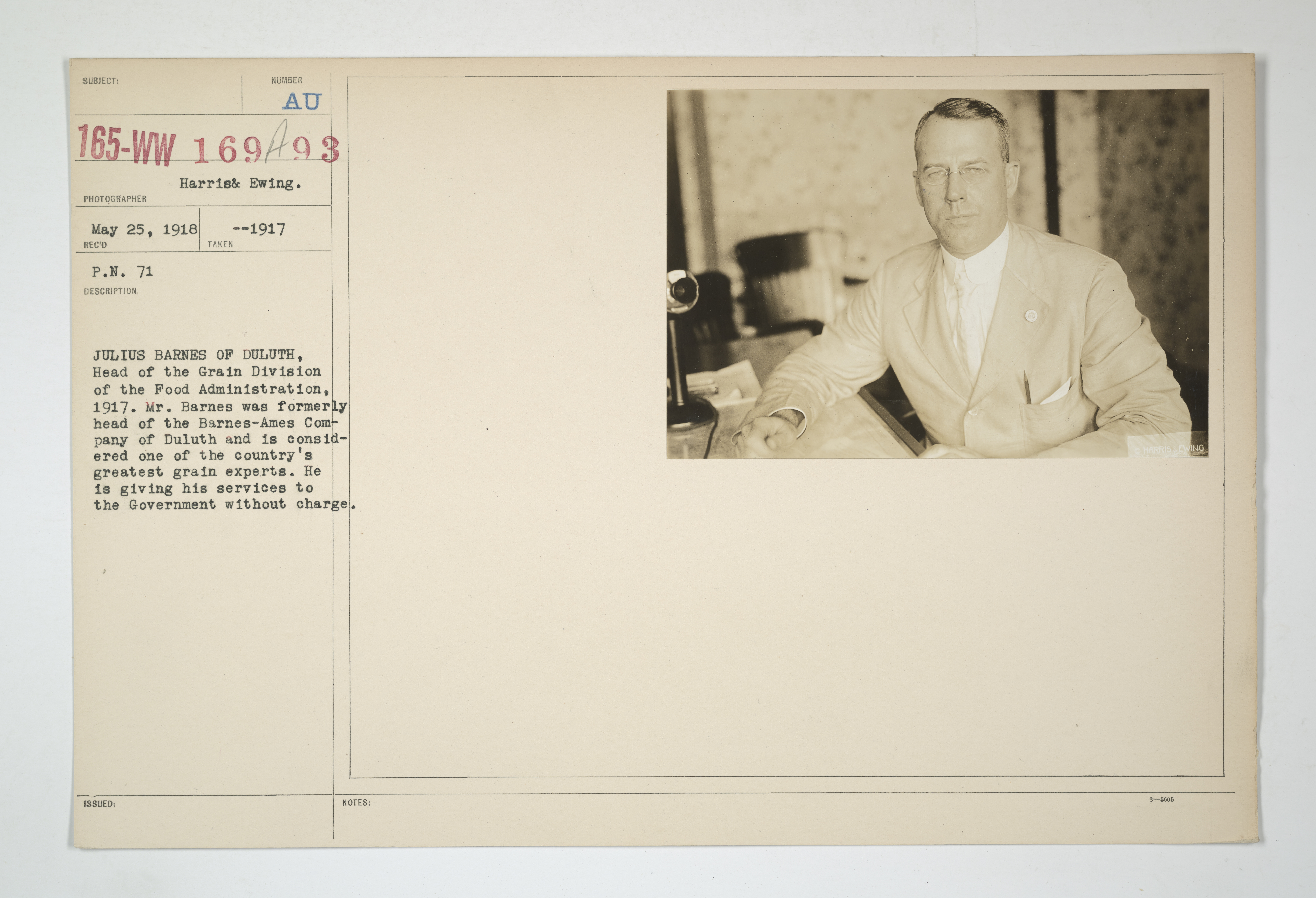 Scope and content: Date Taken: 1917 Photographer: Harris and Ewing